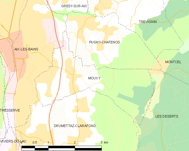 Map of French municipality